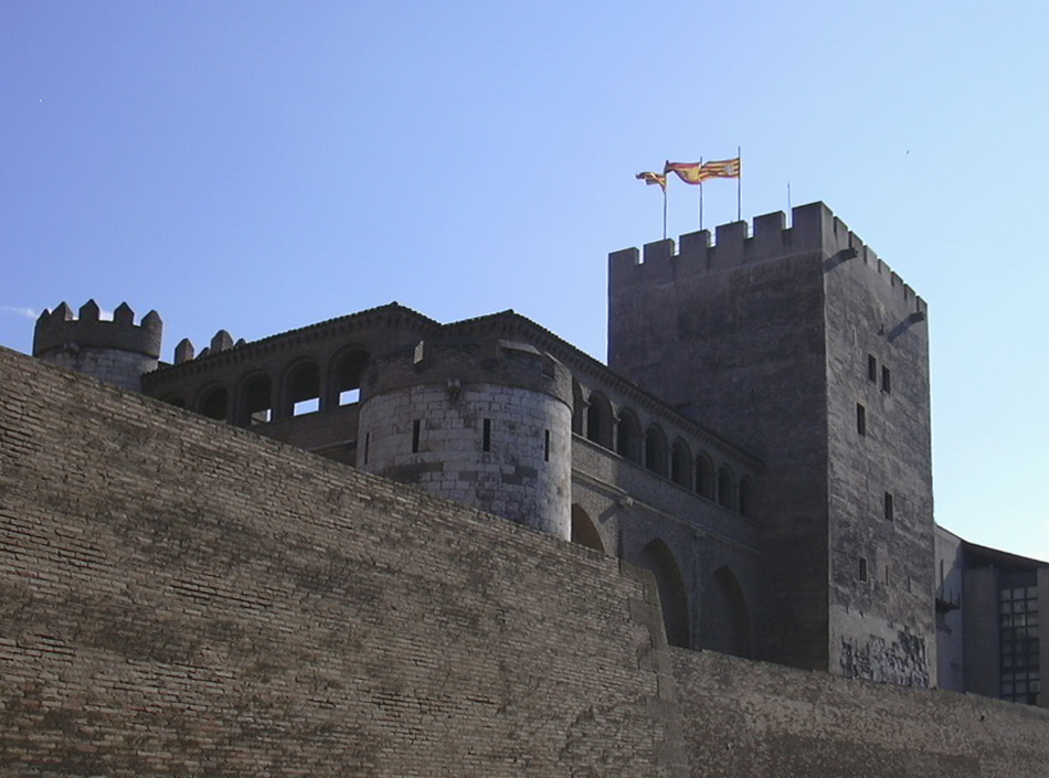 La Aljafería - Troubadour tower Aljafería Native namePalacio de la Aljafería (Zaragoza)Parent institutionMudéjar Architecture of AragonLocationZaragoza, (Spain)Coordinates41° 39′ 23.3″ N, 0° 53′ 48.3″ W Established11th century date QS:P,+1050-00-00T00:00:00Z/7Authority control : Q1354033 VIAF: 135877161 UNESCO: 378-008 BIC: RI-51-0001033 GND: 6055703-5 SUDOC: 050546945 institution QS:P195,Q1354033